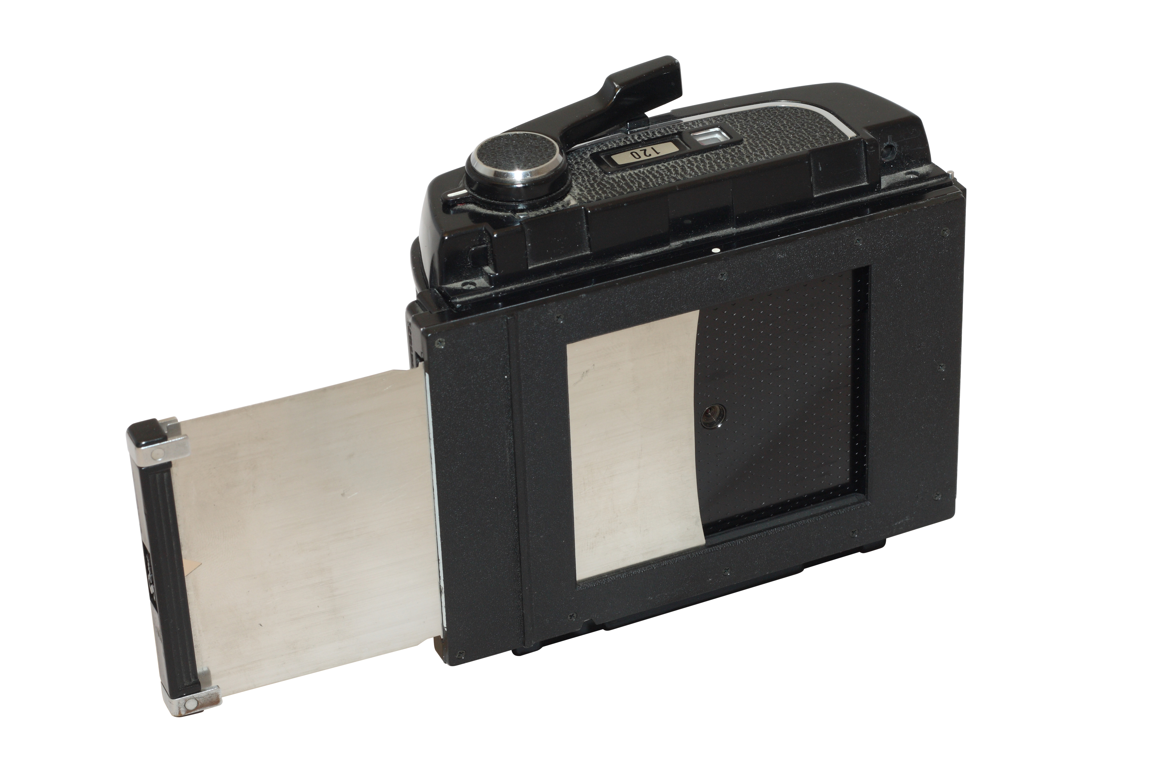 120 film back of a Mamiya RB67 medium format SLR camera.